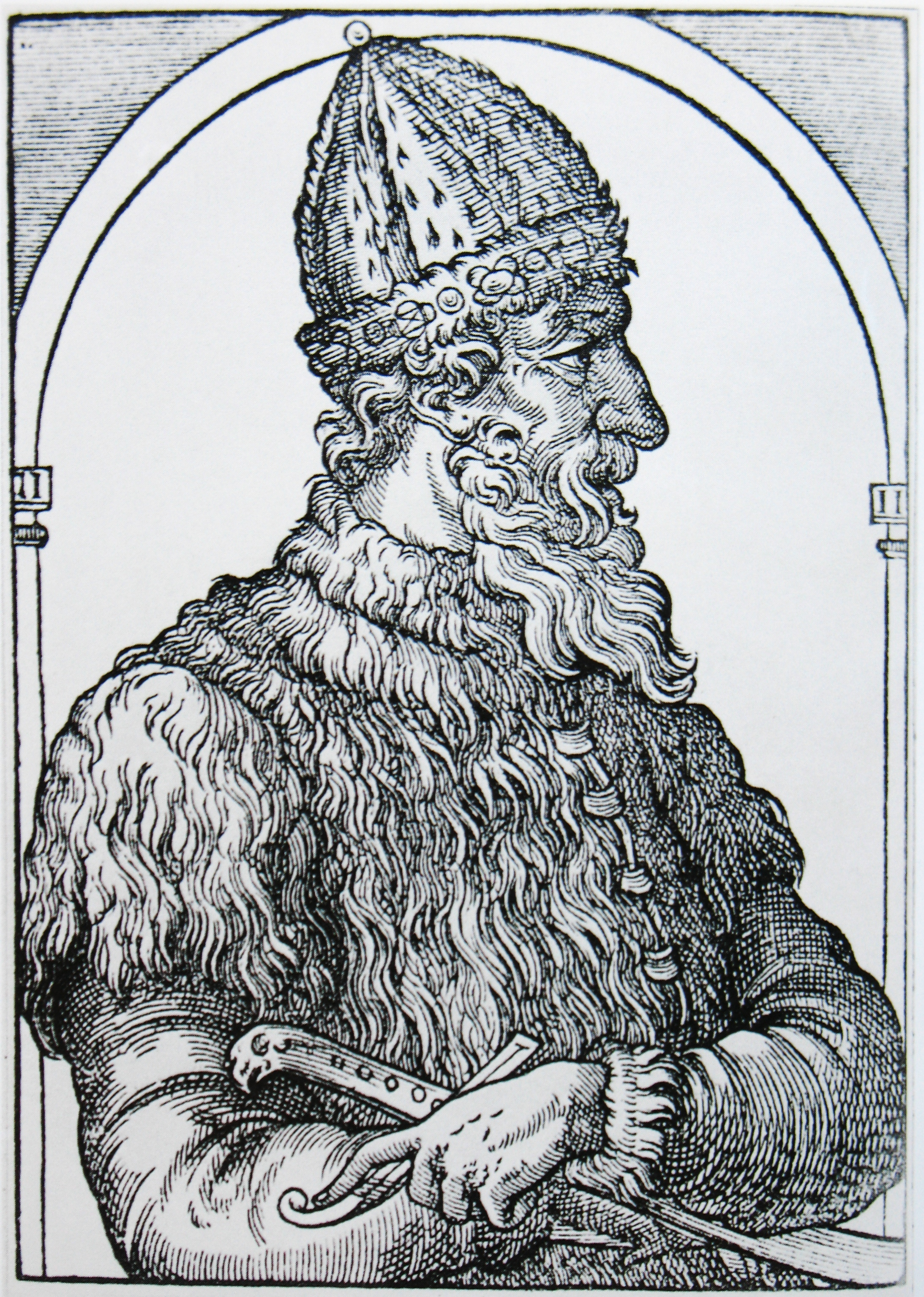 "Albus rex" Ivan III of Russia (the Great) (1440-1505). А. Теве. Гравюра из книги "Космография". 1575. André Thevet. "Cosmography" (1575) From: H.F. Helmolt (ed.): History of the World. New York, 1901. Helmolt, H.F., ed. History of the World. New York: Dodd, Mead and Company, 1902.